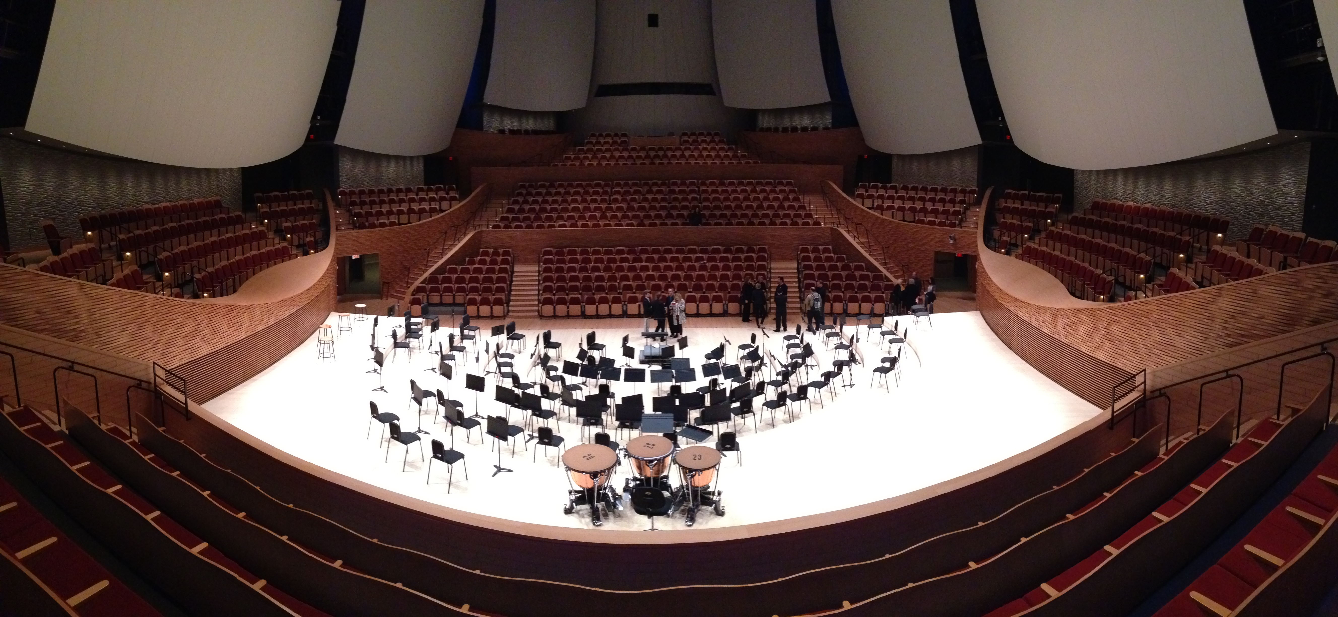 Inside the Bing Concert Hall, view from the "Choral Terrace"